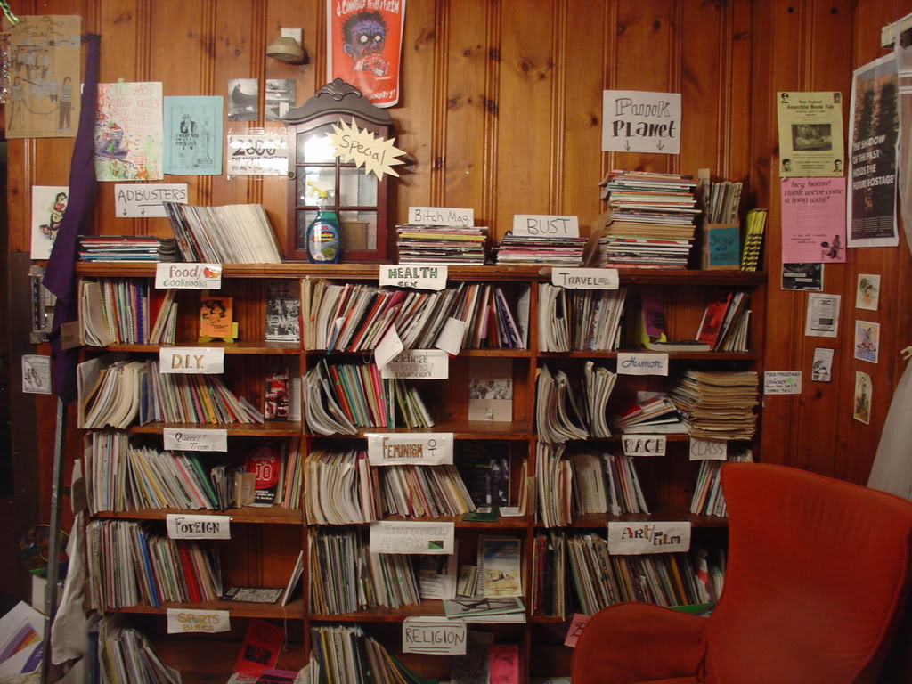 Inside the Papercut Zine Library's former location on Mt. Auburn St. in Cambridge, Massachusetts, taken 2006-02 (1)